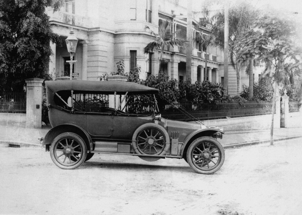 New Sunbeam 1912 touring car in Brisbane